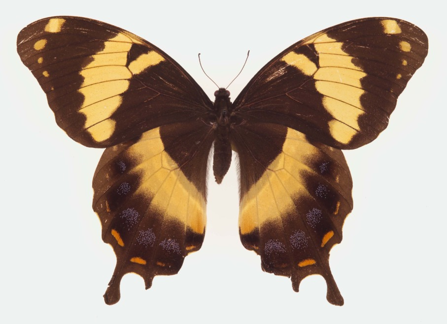 Papilio homerus specimen from the Ulster Museum, collected from Fish River, Jamaica 1887